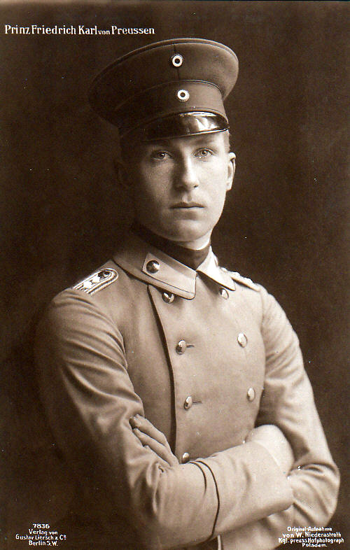 Prince Frederick Charles of Prussia (1893–1917), horse rider in the 1912 Summer Olympics.